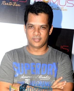 Yash Patnaik the launch of Saumya Shetty's resto bar - Hymus